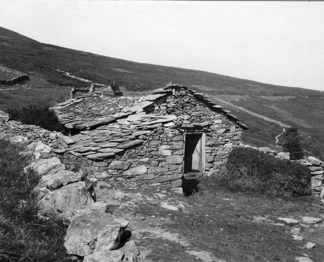 A cabin in an Asturian braña